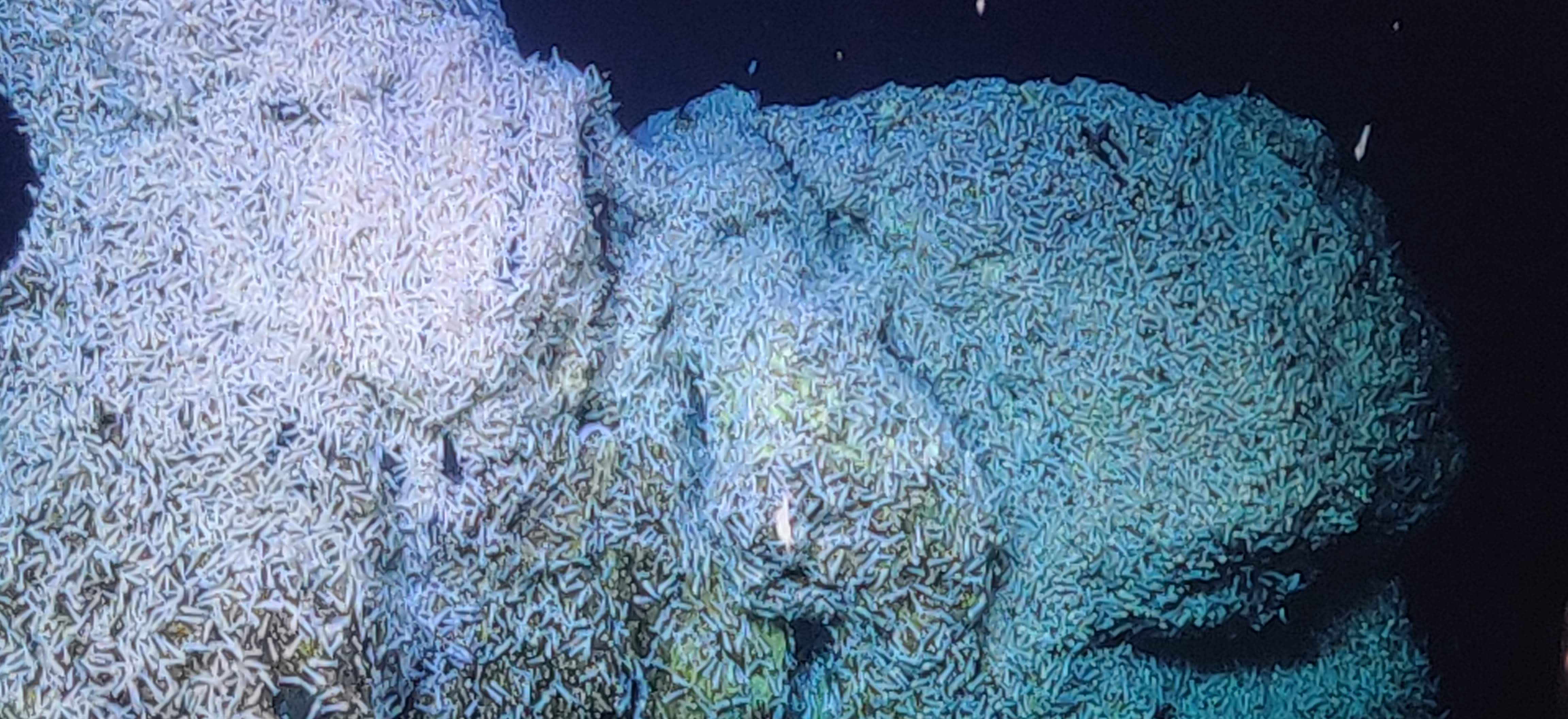 Dense congregations of shrimp (Rimicaris hybisae) at the summit of the Von Damm vent field in early 2020.